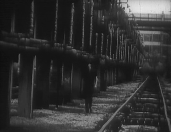 frame from video